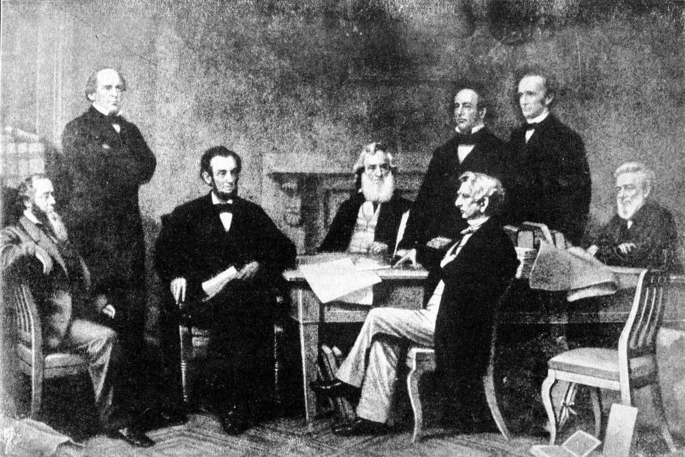 Depiction of a cabinet meeting during presidency of Abraham Lincoln